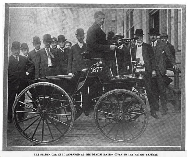 Selden Road engine replica during accumulation of evidence in the Selden patent litigation against Henry Ford, May, 19th, 1906, in and in front of the Decauville Automobile Company, at Broadway and 56th street, New York. Patent attorney and inventor George Baldwin Selden (1846-1922) claimed to have invented "the automobile" in 1877, applied for a patent in 1879, and was granted one finally in November, 1895. It was the legal base on the several Selden patent suits following. This picture appeared within a report on this event and the case in the Automobile Magazine, May, 24th, 1906. Capture reads: "THE SELDEN CAR AS IT APPEARED AT THE DEMONSTRATION GIVEN TO THE PATENT EXPERTS - George B. Selden, the inventor, Is the man with the gray moustache standing partly to the rear of the body of the car. He can be distinguished by the watch chain on his vest. Henry R. Selden is at the wheel, and W. A. Redding and H. F. Cun[t]z are at the right of the picture. The Hon. George Raines is behind the steering wheel, only his straw hat showing.